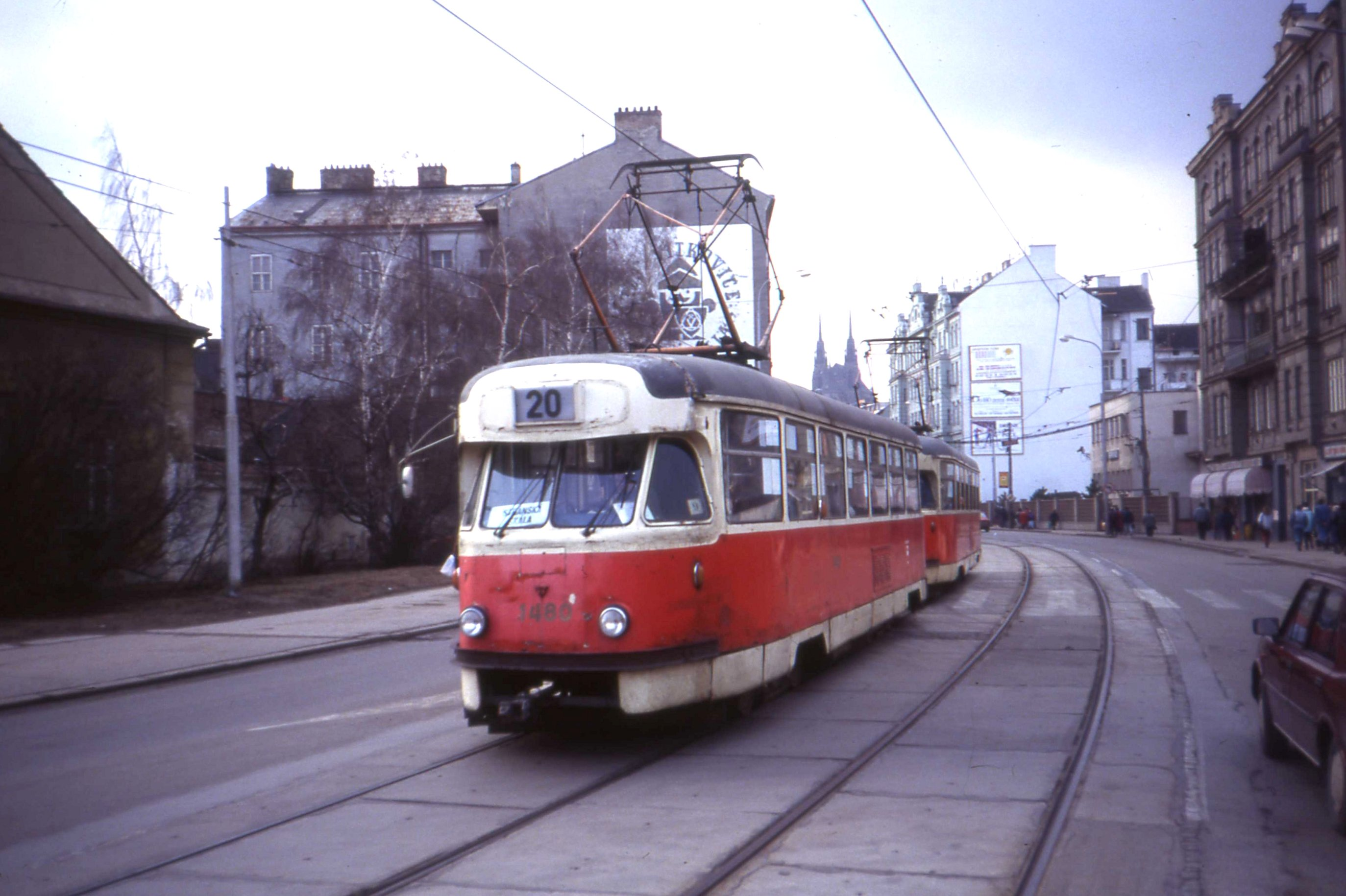 Tatra T2R trams in Brno, Czech Republic